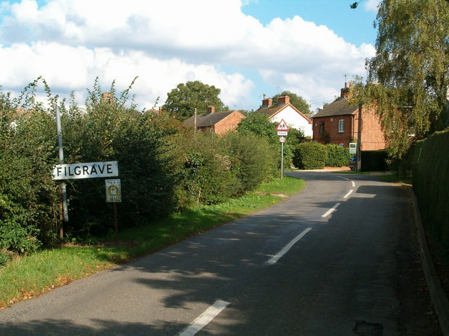 Entrance to Filgrave. The approach to Filgrave village, with the name-sign on the left.